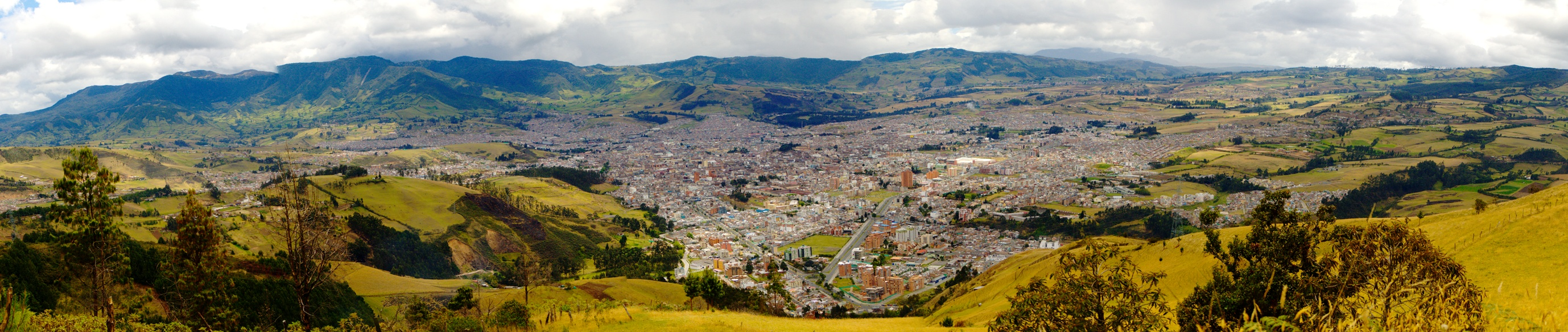 Panoramic view of San Juan de Pasto